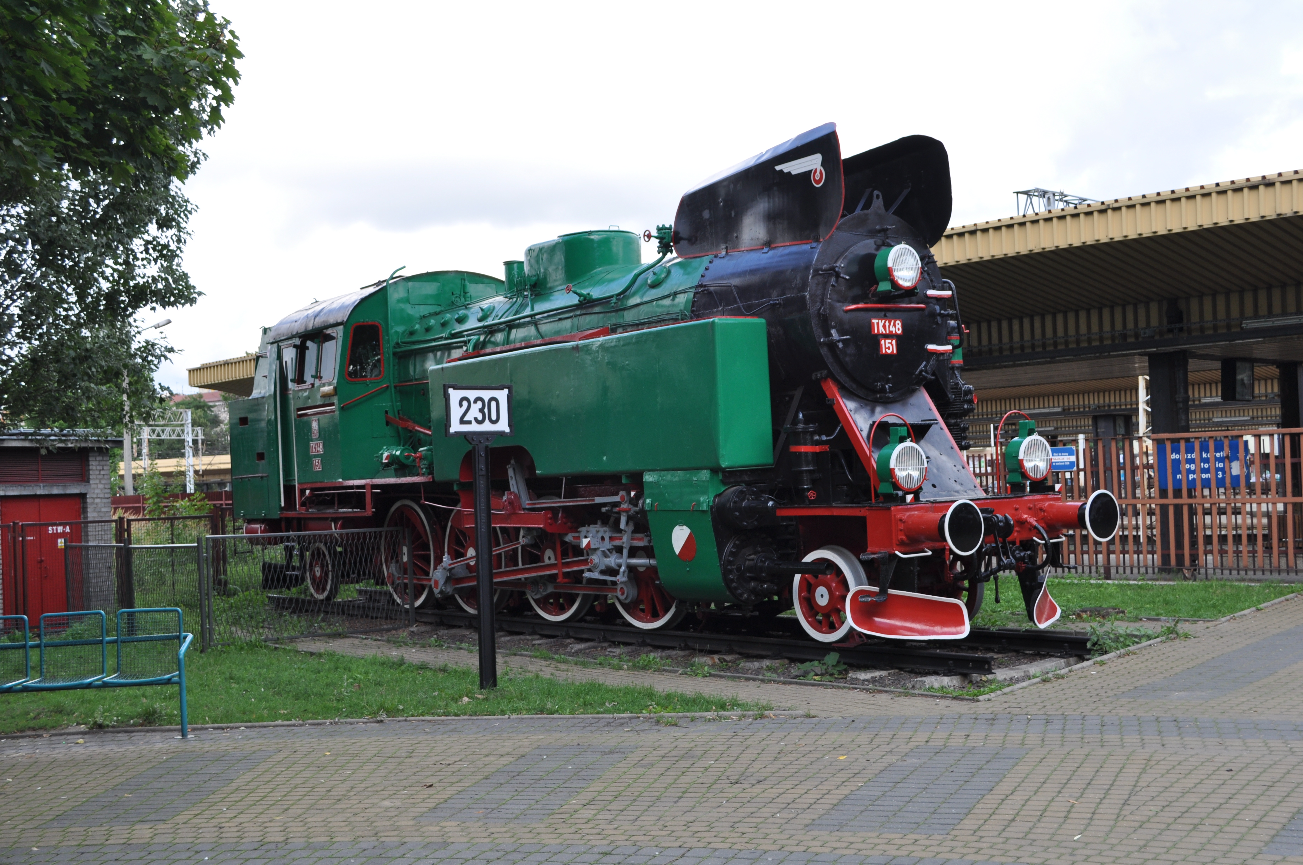 PKP class TKt48 near main train station in Częstochowa.